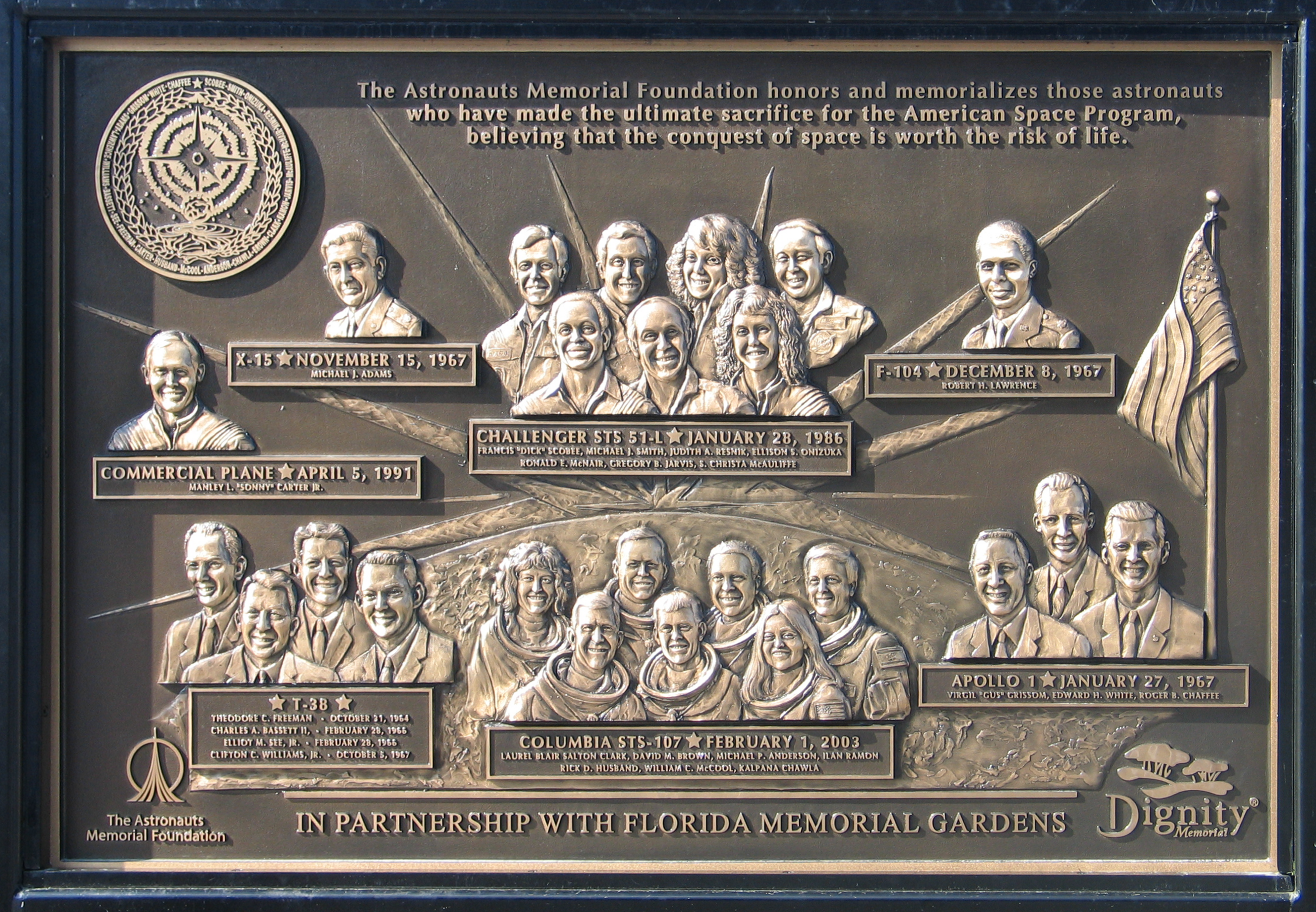 Astronaut Memorial Foundation's Dignity Memorial as sardigna versailles